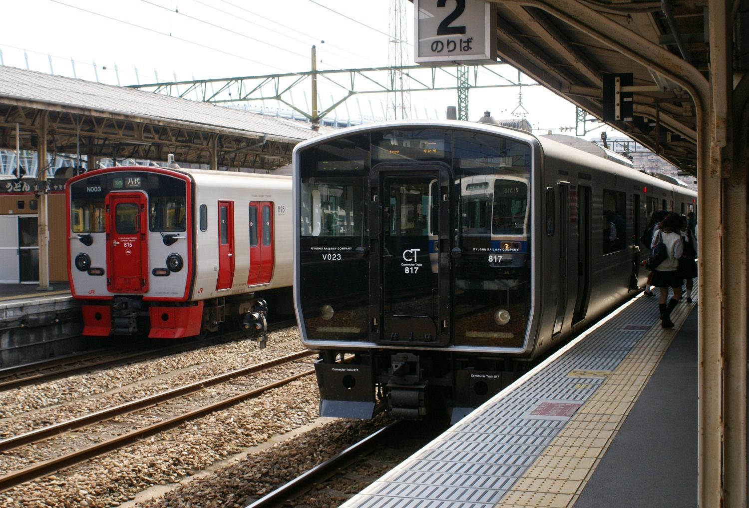 鳥栖駅にて撮影